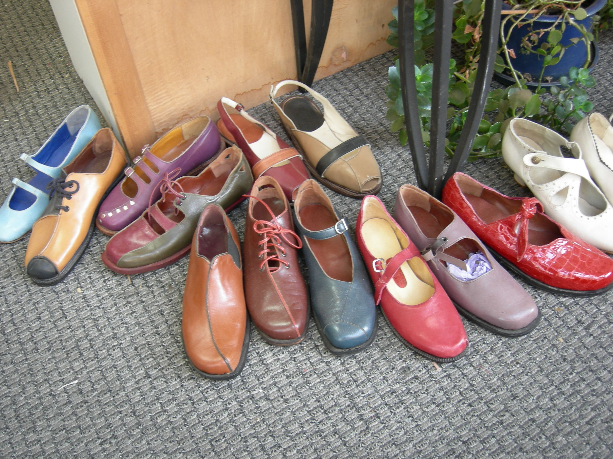 Sample shoes at Rubaiyat, "shoe artisan studio", Seattle, Washington, USA, probably the last custom shoemakers in Seattle.